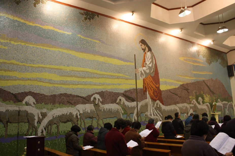 king catholic church in shanghai